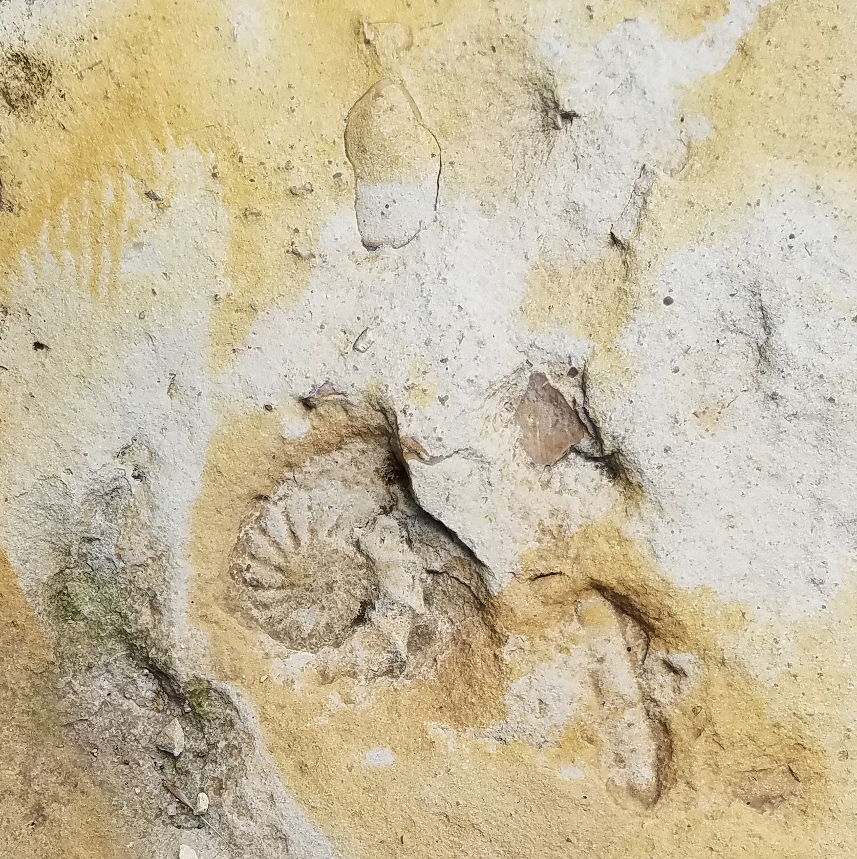 Fencepost limestone Pfeifer assemblage (outcrop at I-70 frontage road in Ellsworth County, Kansas): Inoceramus cuvieri Baculites yokoyamai Collignoniceras woolgari